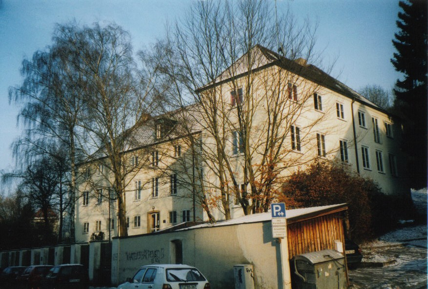 The Leibniz Kolleg in Tübingen, Southern Germany. Picture taken in Winter 2002/2003.